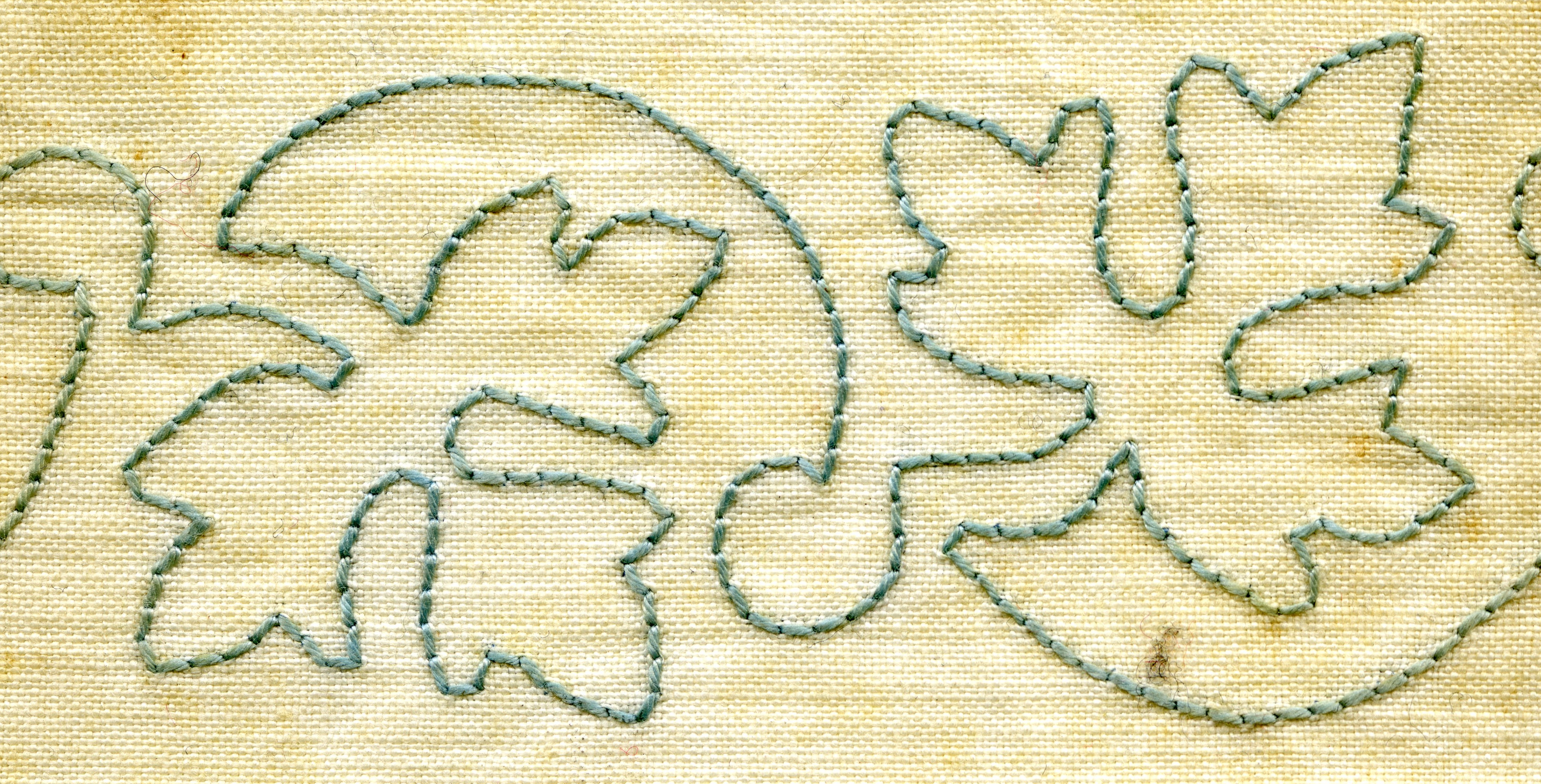 Machine embroidery in chain stitch, back